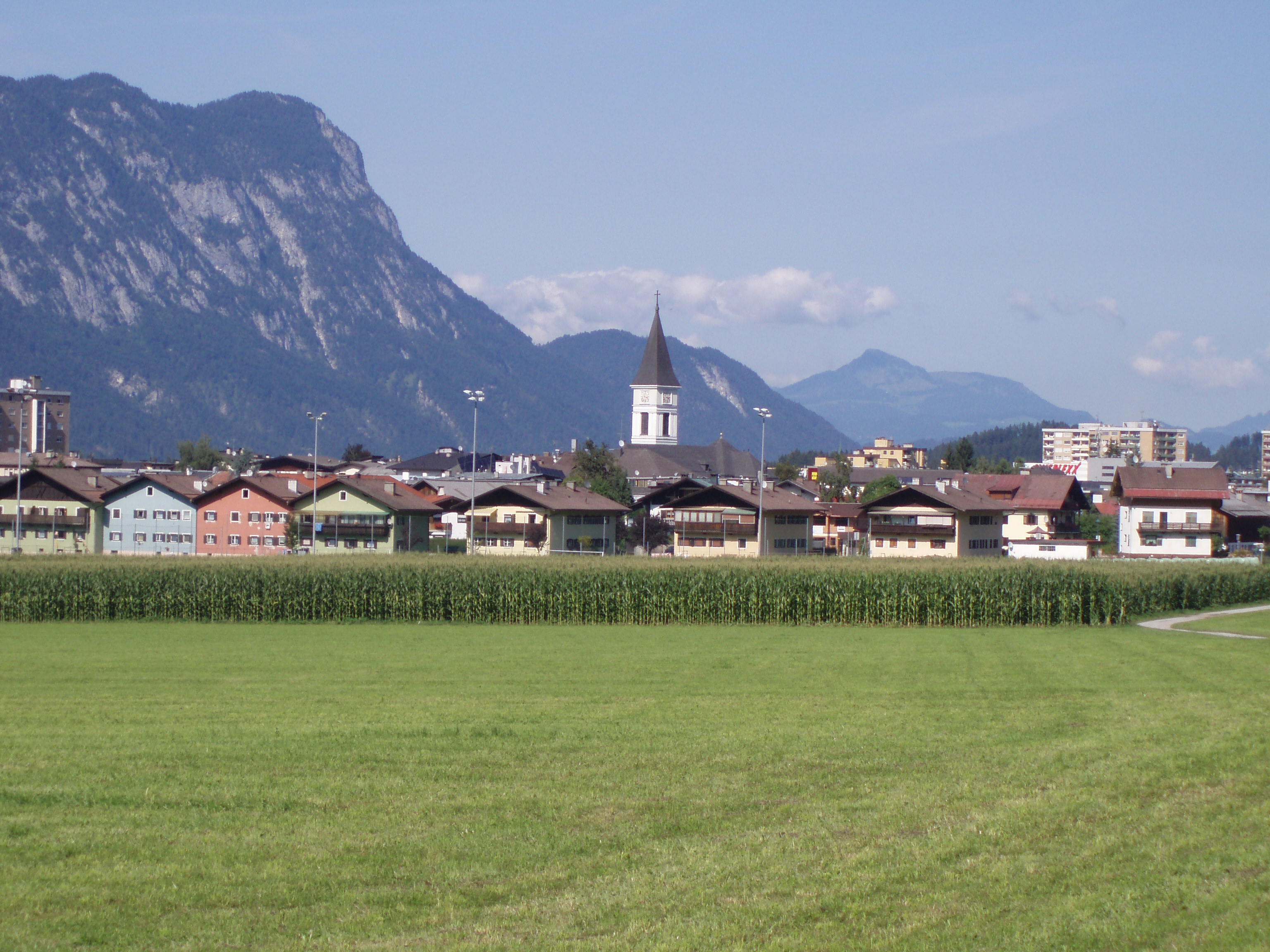 The Saint Lawrence Church of the Tyrolean town Wörgl, Austria